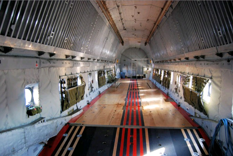 View (looking aft) of the cargo deck of a U.S. Air Force Douglas C-124A Globemaster II (s/n 49-0258, c/n 43187) at the USAF Air Mobility Command Museum at Dover Air Force Base, Delaware (USA).